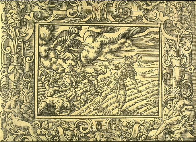 Engraving by Virgil Solis for Ovid's Metamorphoses III, 101-130.